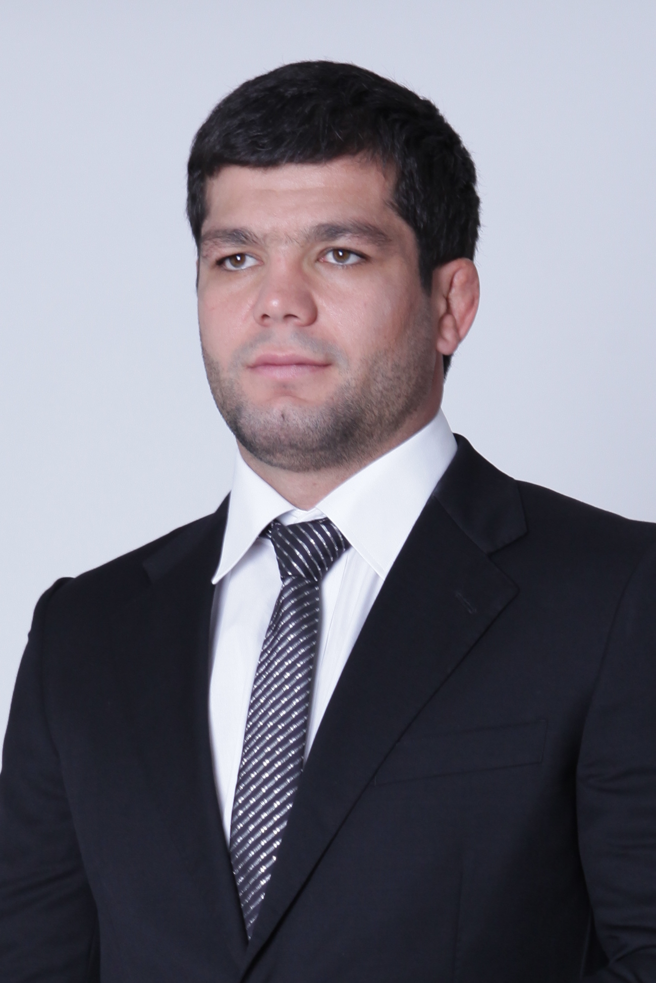 Науруз